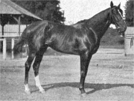 American champion Thoroughbred racehorse, Hermis, in 1904.